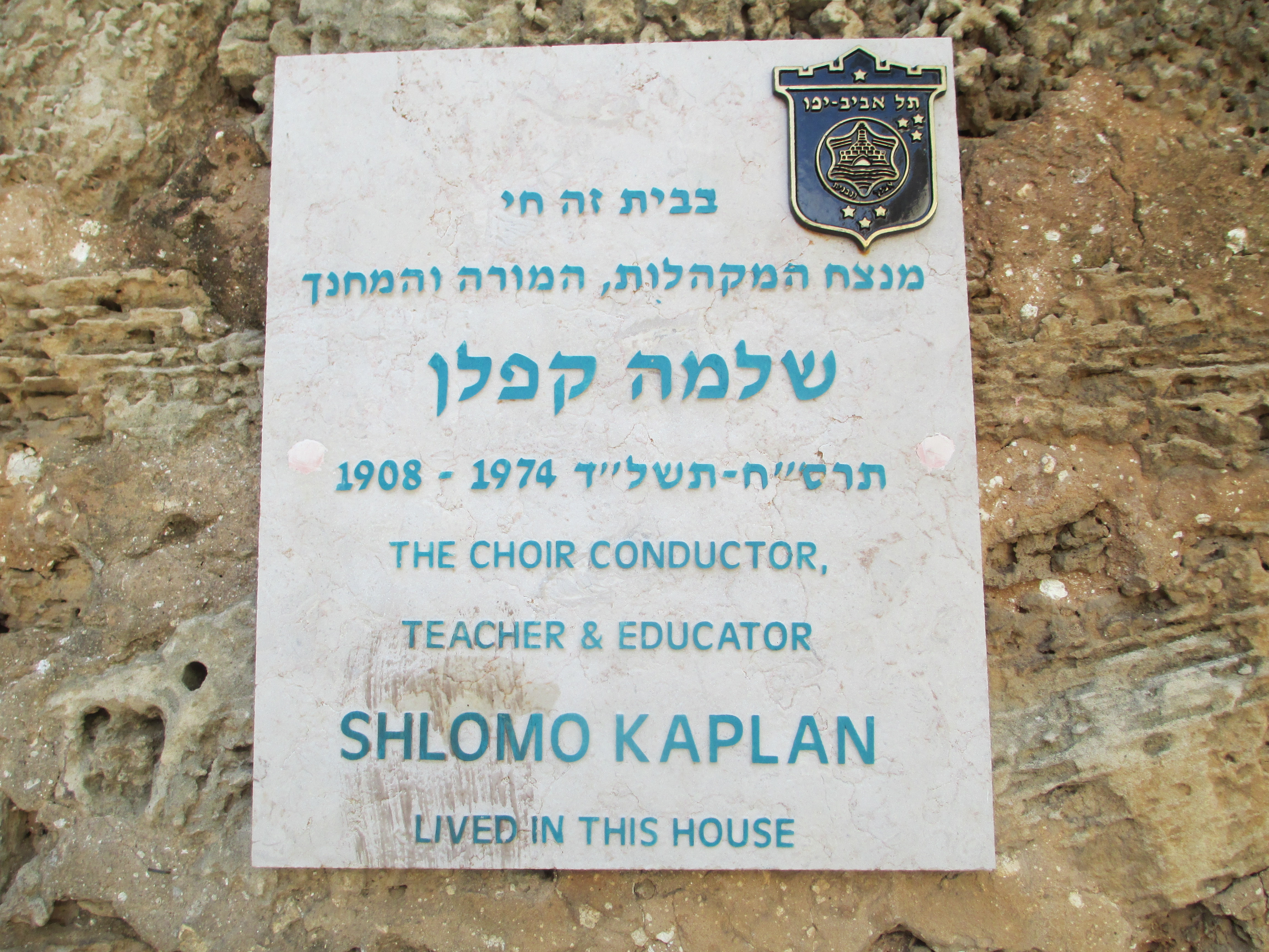 memorial plaque to the choir conductor shlomo kaplan in tgel aviv לוחית זיכרון למנצח המקהלות שלמה קפלן ליד ביתו ברח' סעדיה גאון 3 בתל אביב